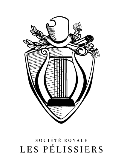 Logotype of S.R. les Pélissiers